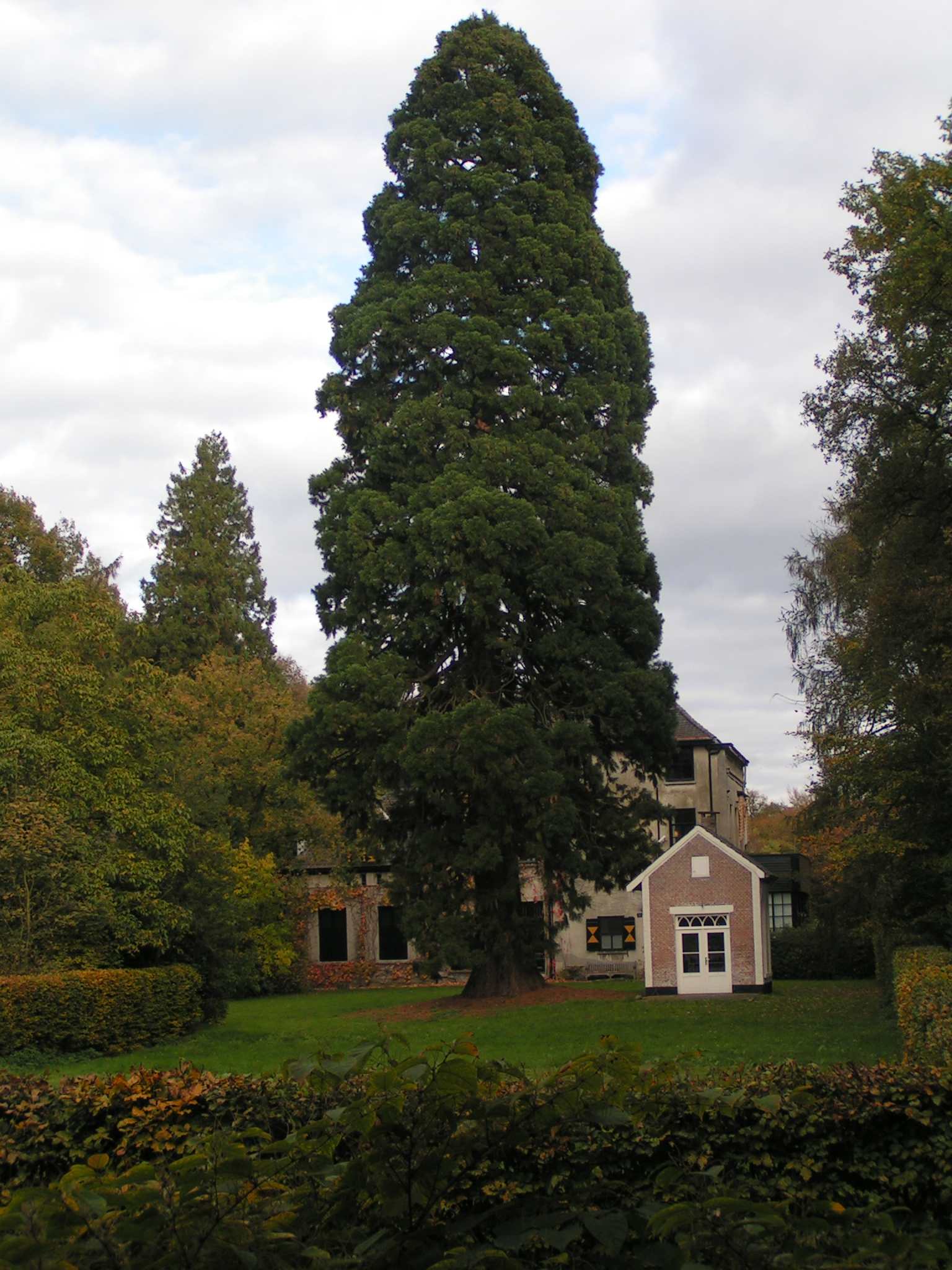 The largest giant sequoia of North Brabant. Eikenhorst estate, Boxtel More information on this tree